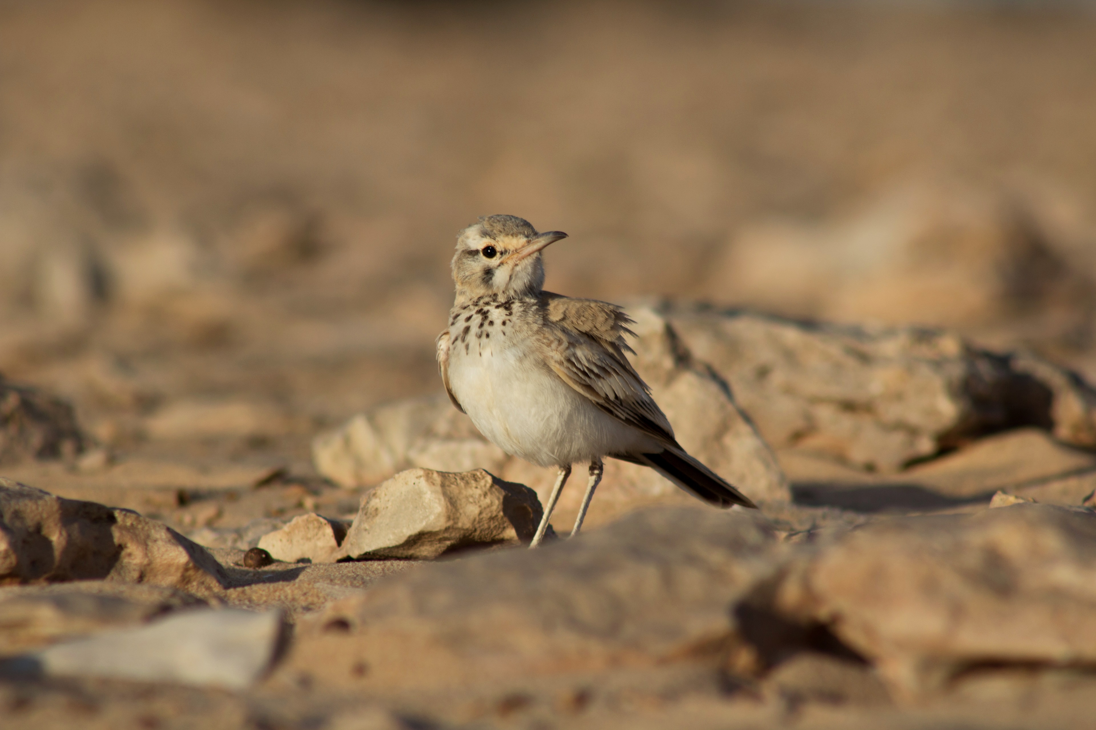 this picture has been taken in the station of aclimation Safia near the Morocco-Mauritania Borders, south of Dakhla.